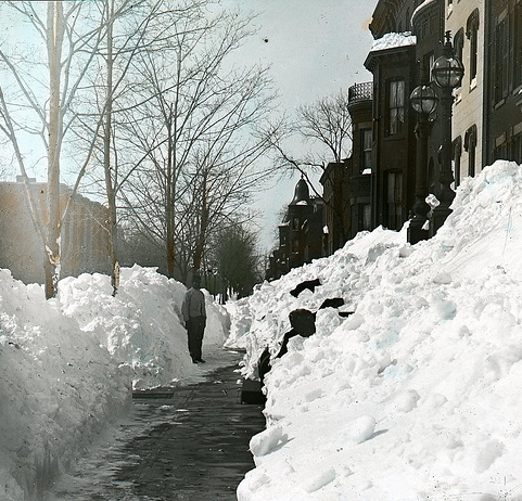 Shoveled sidewalks following the an 1899 snow storm.